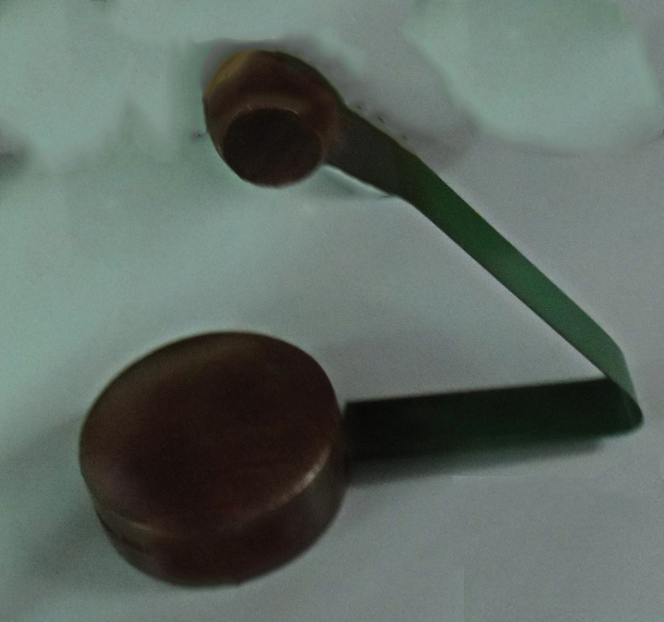 Photo taken in a musical instrument store. Song loan - a percussion instrument used in Vietnamese traditional music